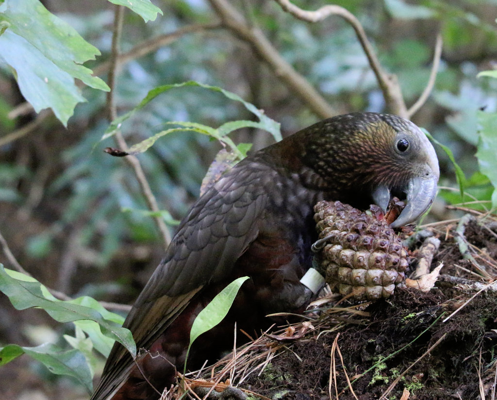 In the winter when the pine cones have had time to soften, kaka can often be found on the forest floor eating from them.